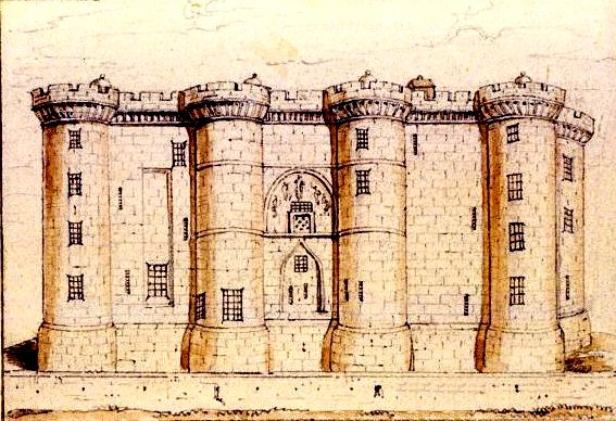 Bastille, eastern façade , drawing of 1790 or 1791.